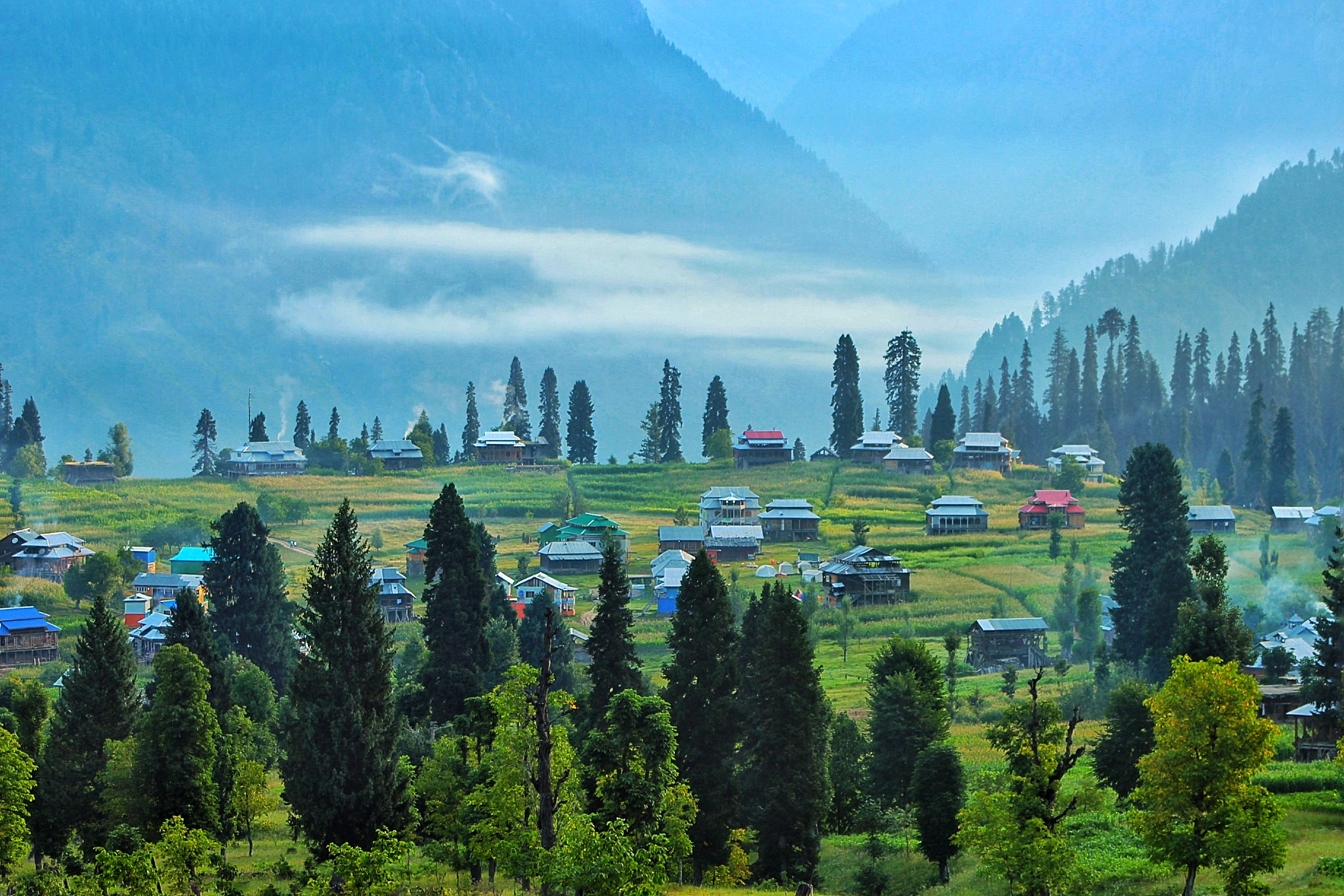 Arang Kel Village in Morning Mist